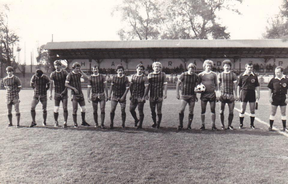 The third placed FC Dorog in the division of 1981-82